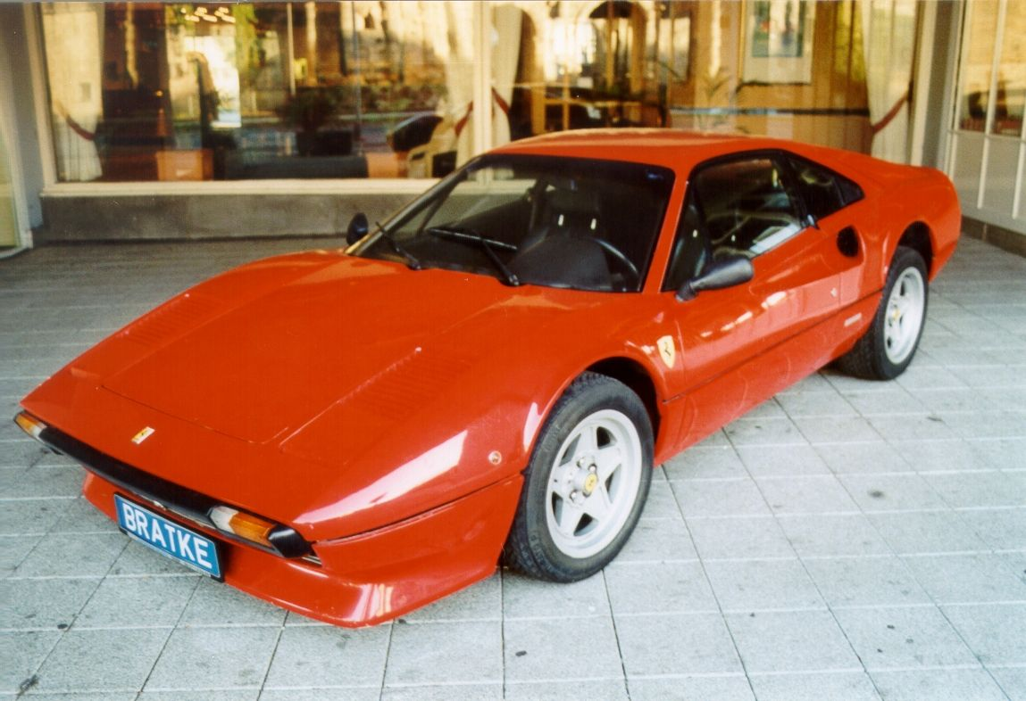 Ferrari 308gtb